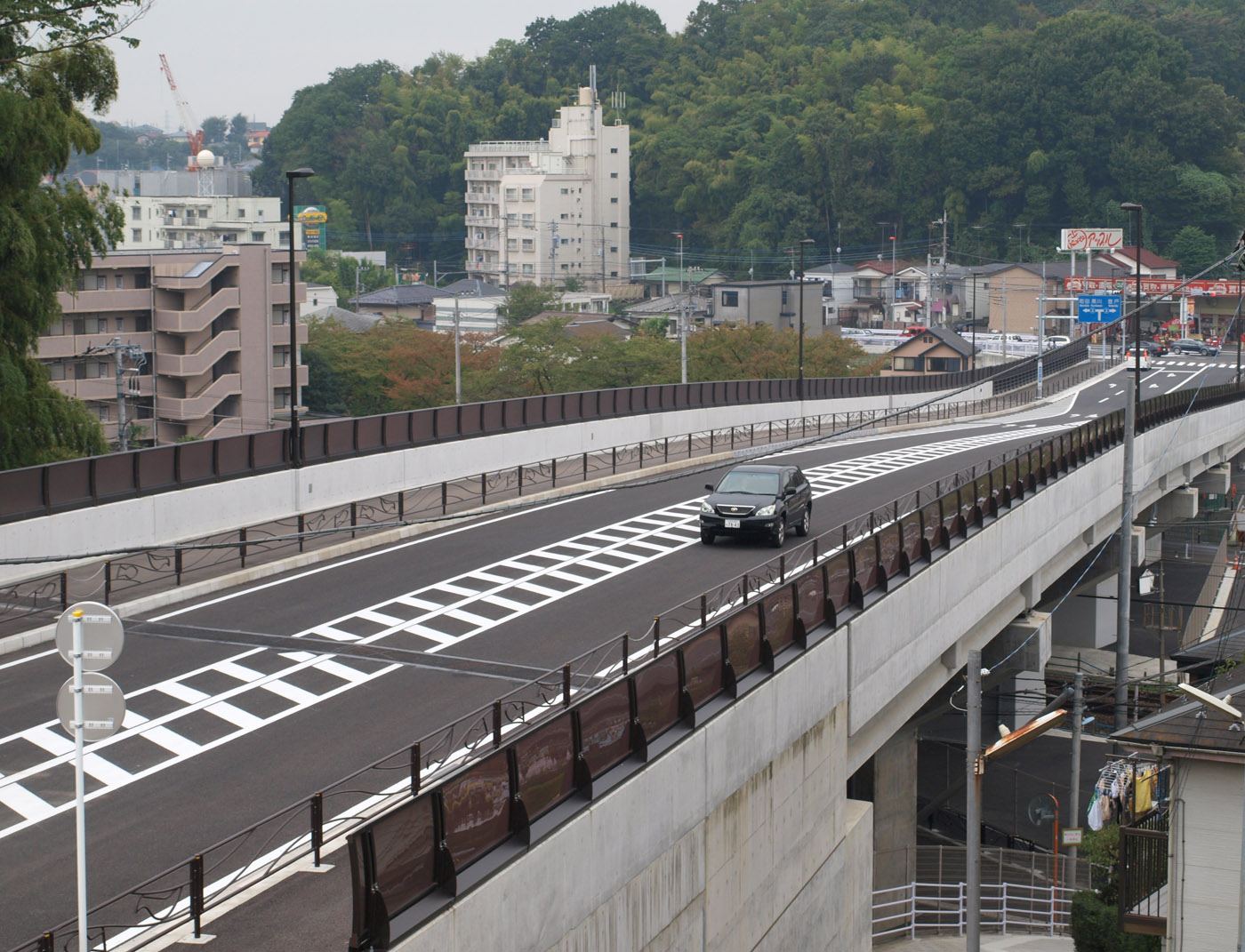 Kakio-Ohashi